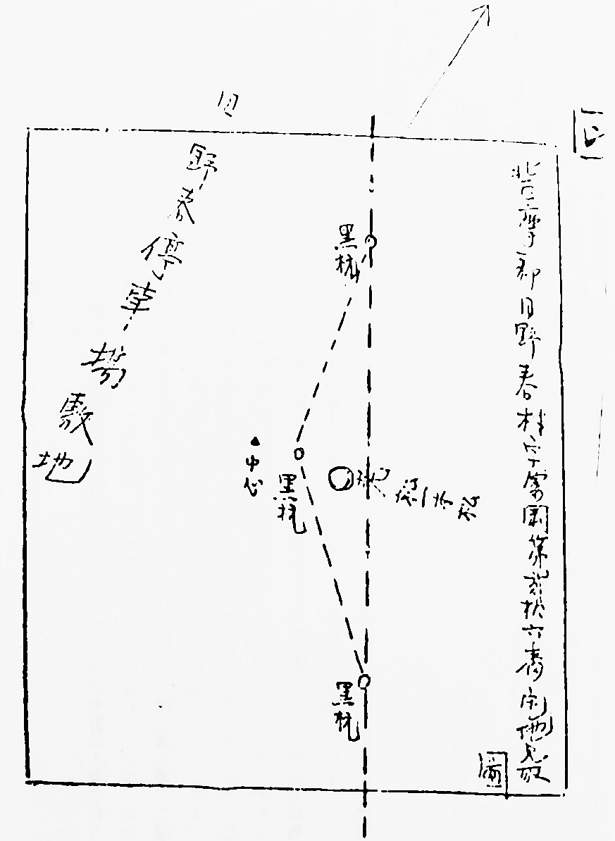 Shingen-ko Hatakake-matsu pine tree Relations position figure